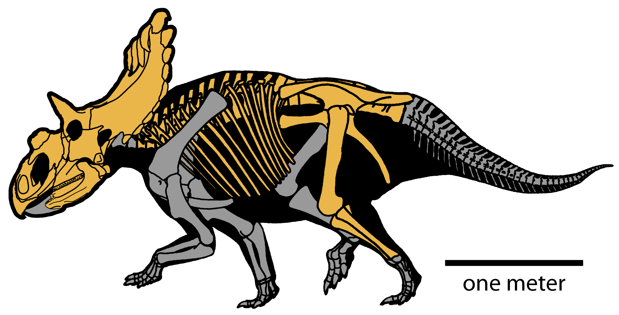 Skeletal elements recovered for Kosmoceratops richardsoni. Kosmoceratops richardsoni is known from four specimens, one of which preserves a nearly complete skull and 45% of the postcranium. Scale bar represents one meter.